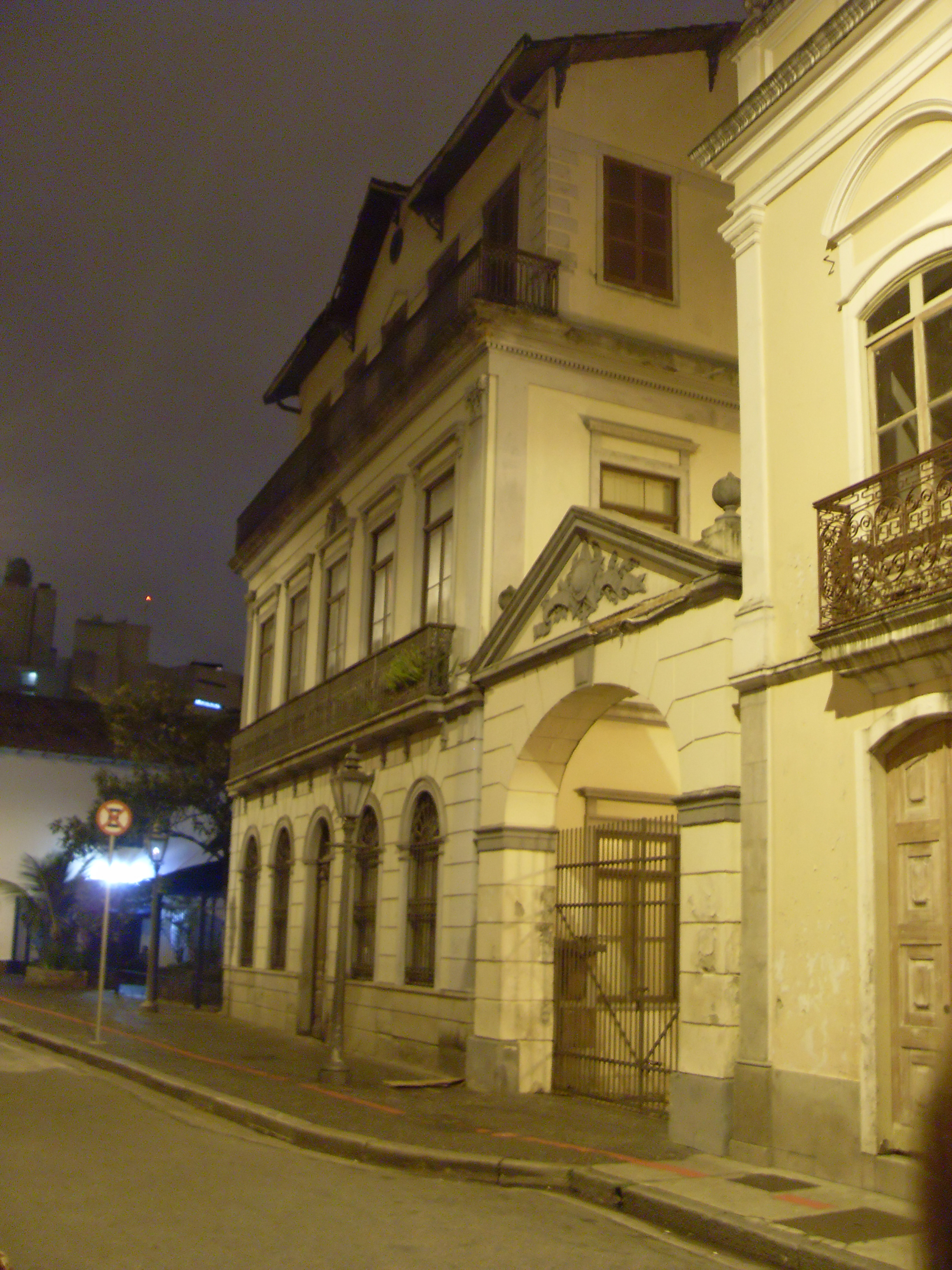 Beco do Pinto entrance, photo taken from Roberto Simonsen St., in front of Solar da Marquesa de Santos.